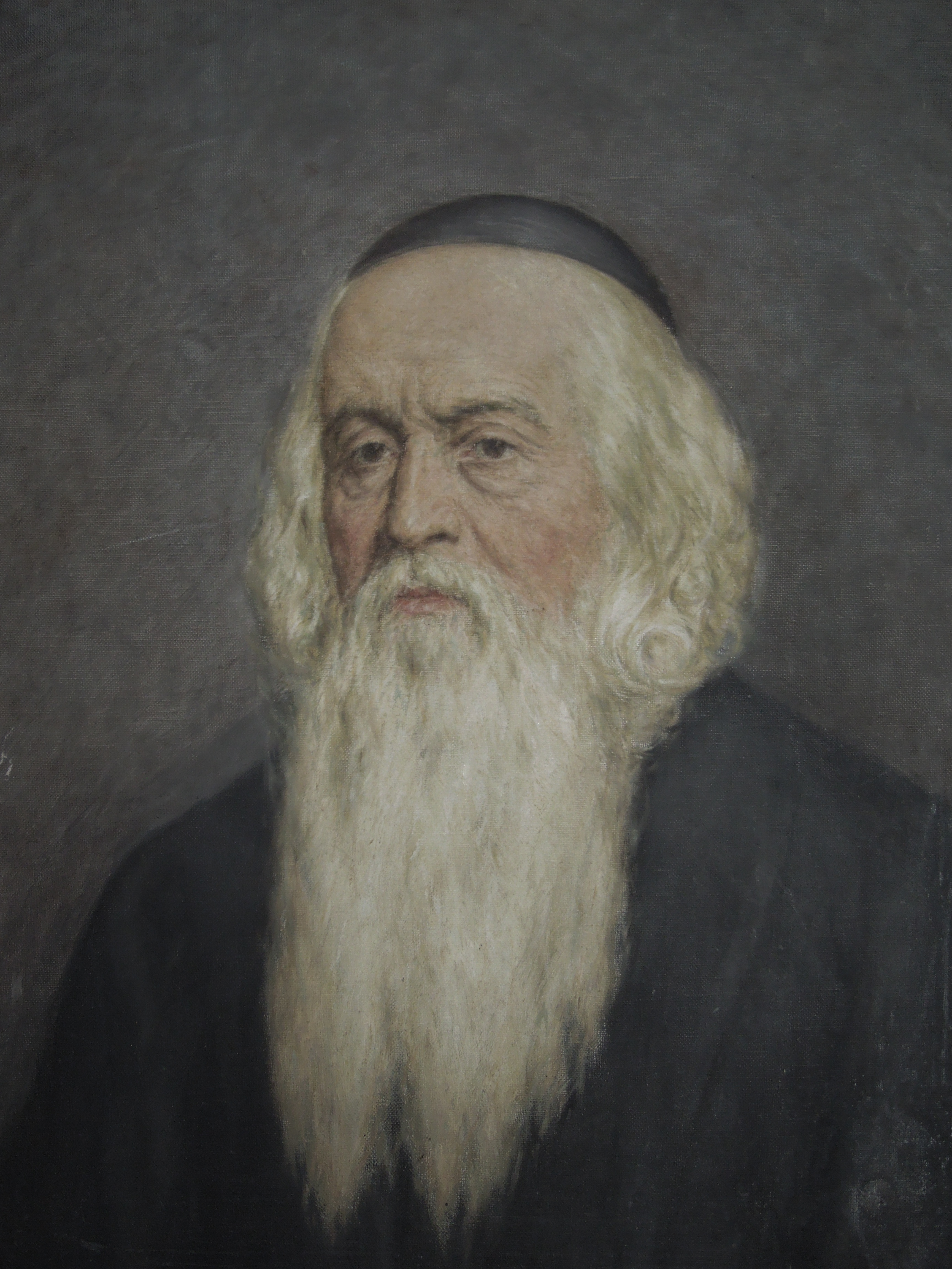 The portrait ofJohn Amos Comenius done by Karol Miloslav Lehotský.